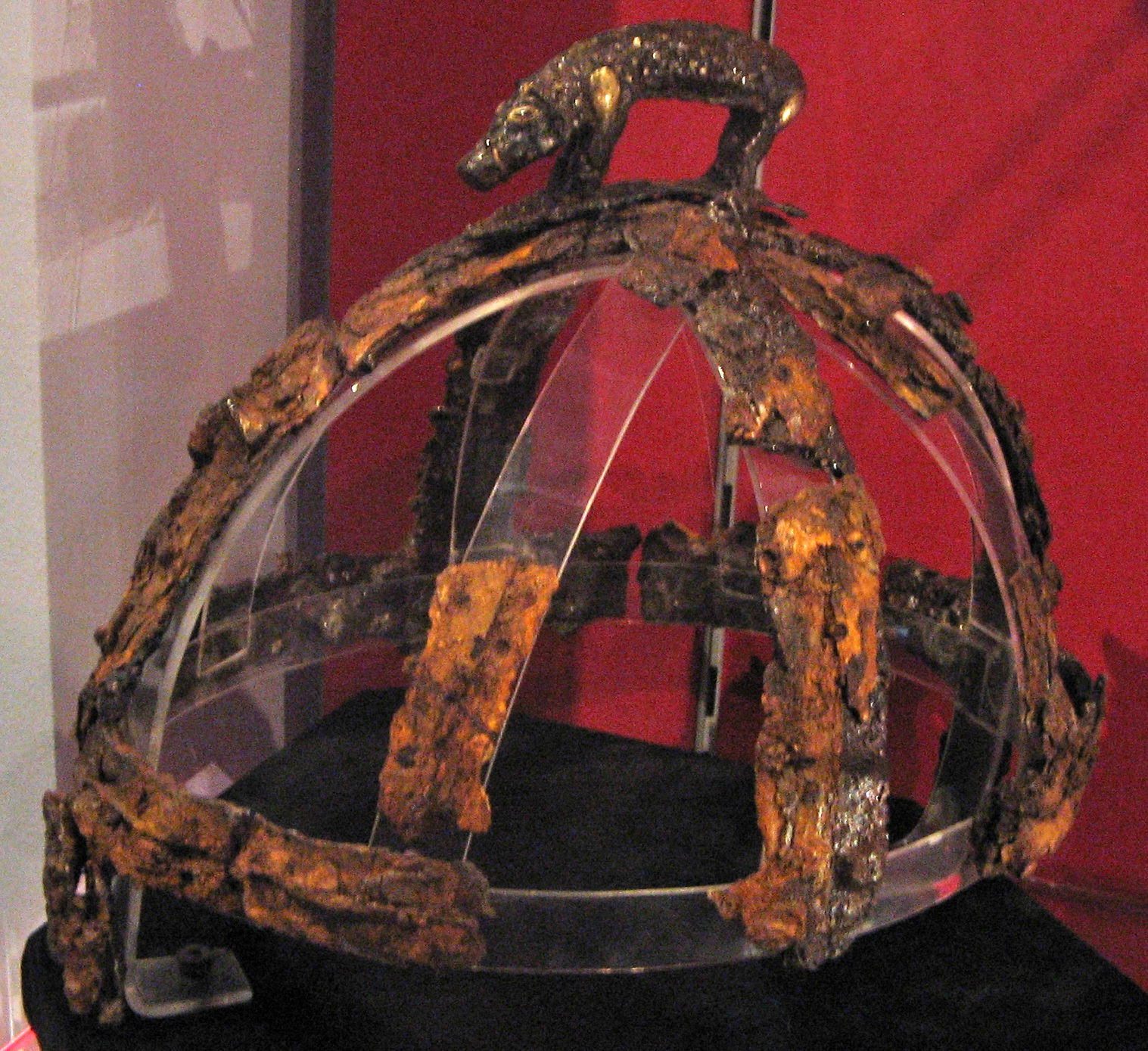 Image of the Benty Grange Helmet taken in situ in Sheffield's Weston Park Museum.